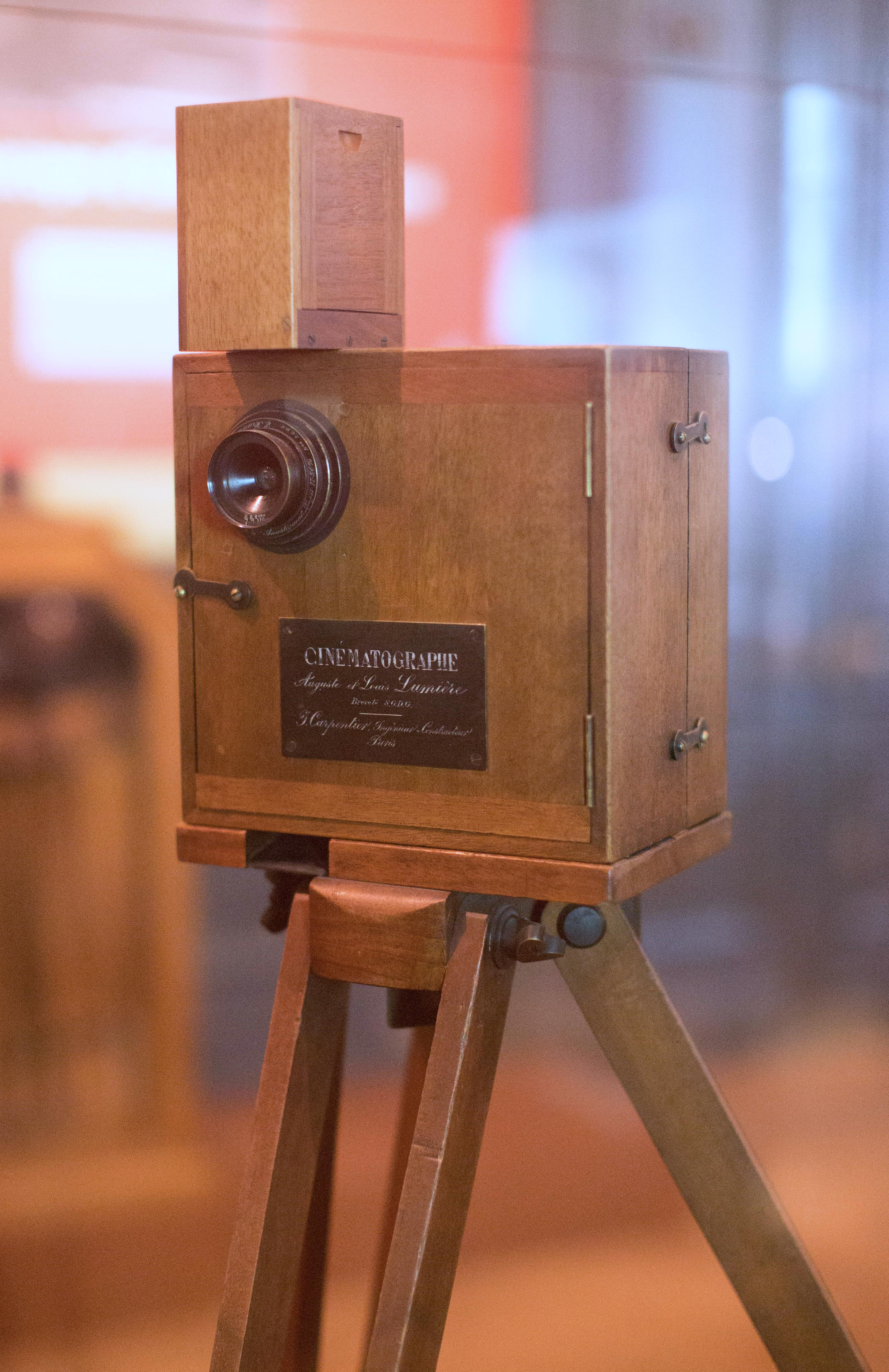 Institut Lumière - CINEMATOGRAPHE Camera